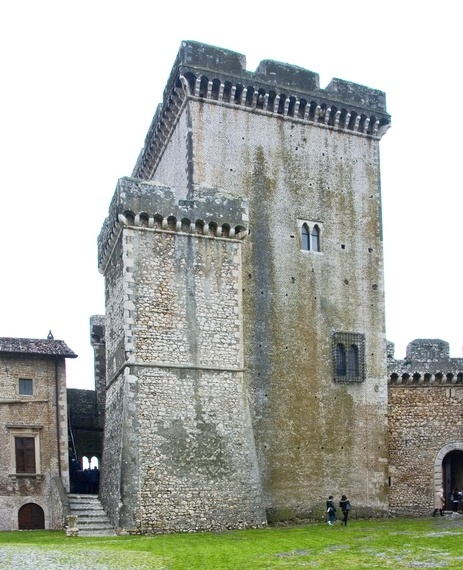 Caetani Castle, Sermoneta, Lazio, Italy